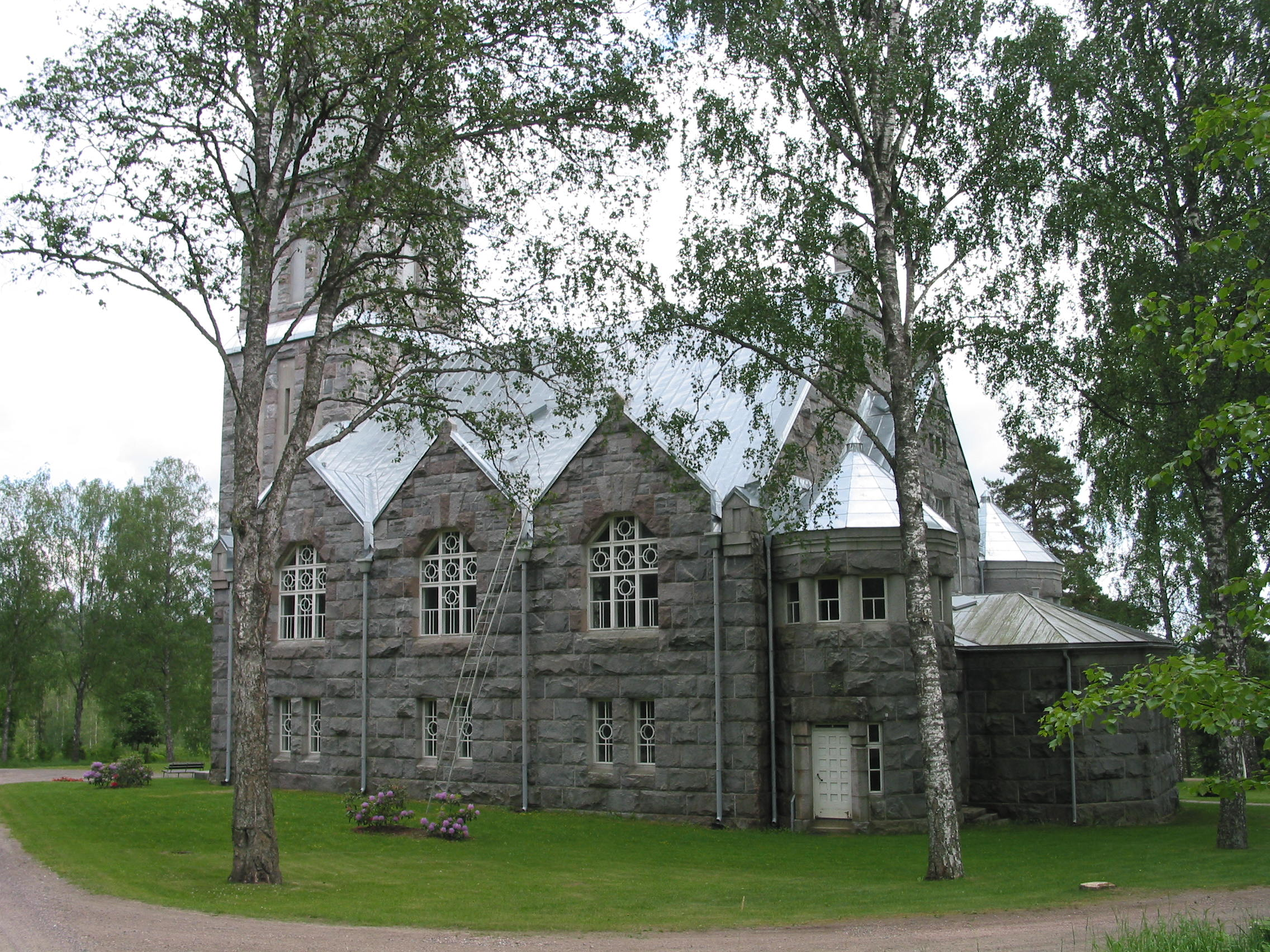 Västanfjärd New Church in Västanfjärd, Kimitoön, Finland.